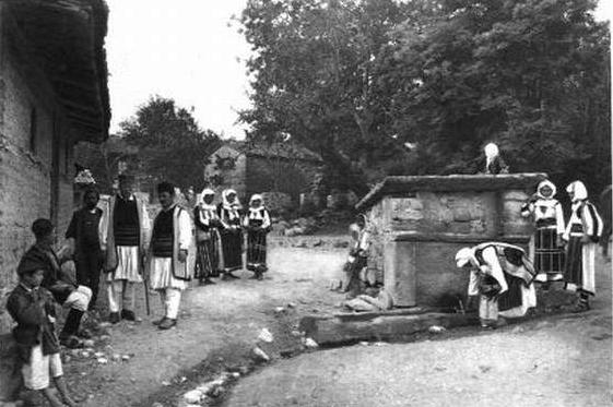 Village Banjani near Skopje, Macedonia in 1919